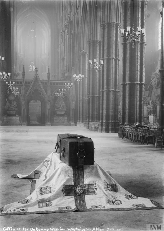 The Unknown Warrior at Westminster Abbey, November 1920 In order to commemorate the many soldiers with no known grave, it was decided to bury an 'Unknown Warrior' with all due ceremony in Westminster Abbey on 11th November, Armistice Day, in 1920. The photograph shows the coffin resting on a cloth in the nave of Westminster Abbey before the ceremony at the Cenotaph and its final burial.